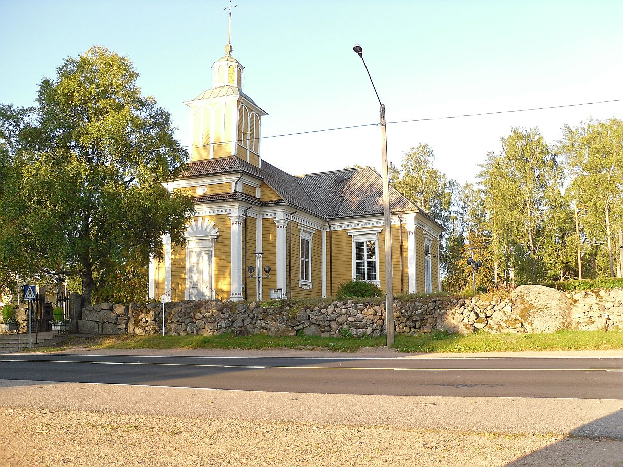 Honkajoki Church in Honkajoki, Finland